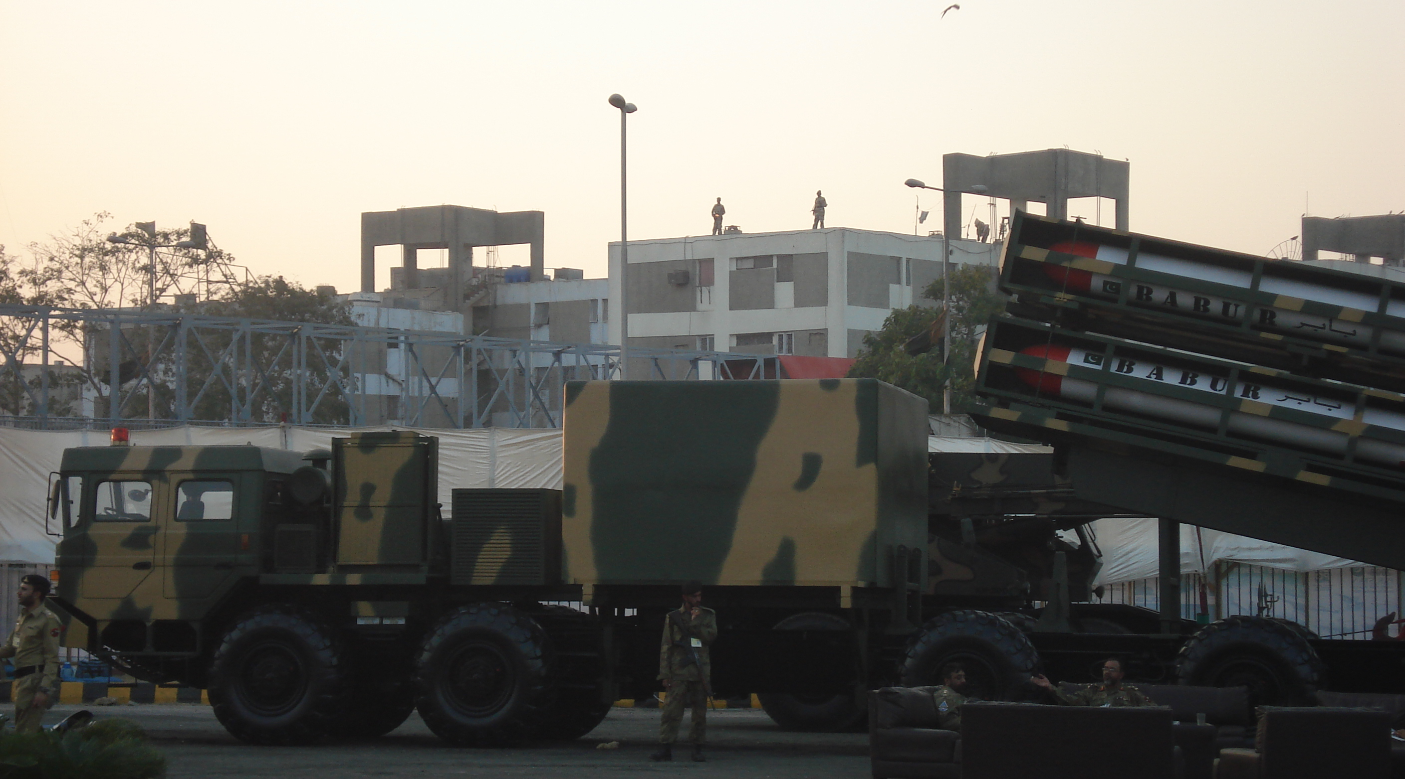 A transporter erector launcher (TEL) carrying four cruise missiles on display at the IDEAS 2008 defence exhibition in Karachi.